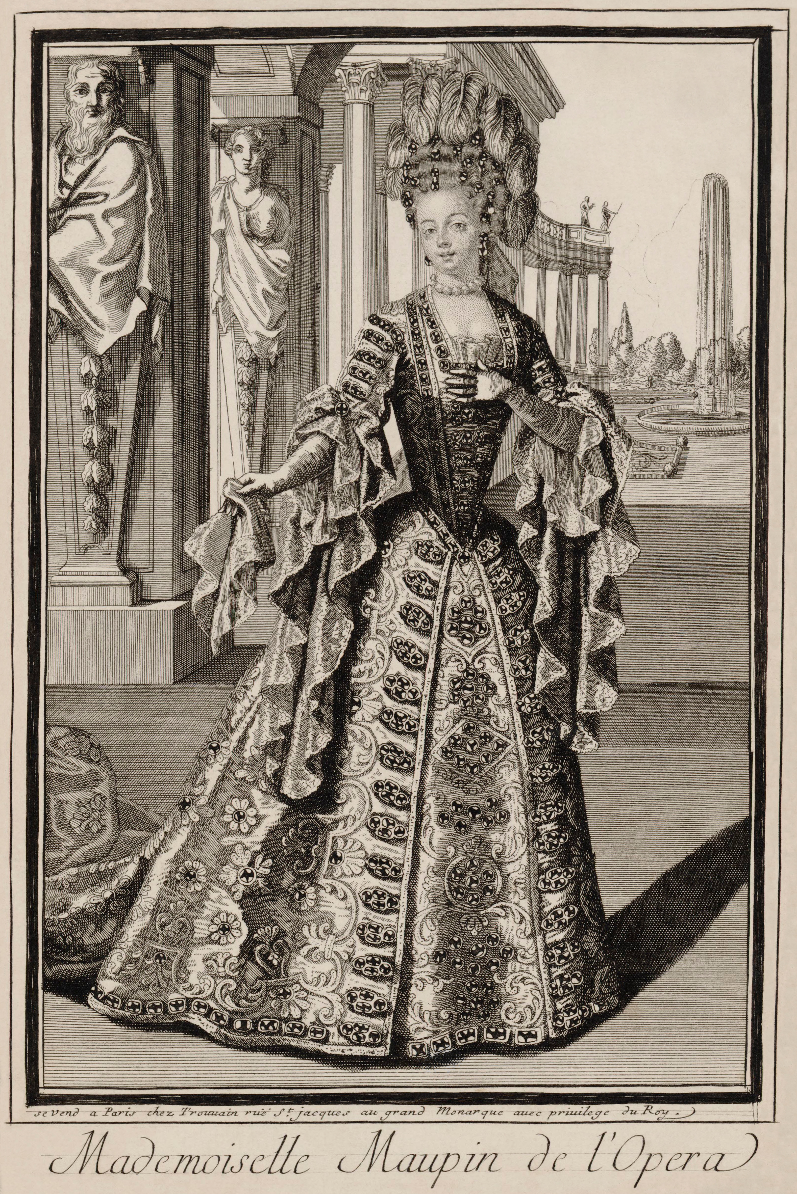 « Mademoiselle Maupin de l'Opéra ». French duellist and opera singer Julie d'Aubigny (1670–1707). Anonymous print. Collection Michel Hennin : Estampes relatives à l'Histoire de France.